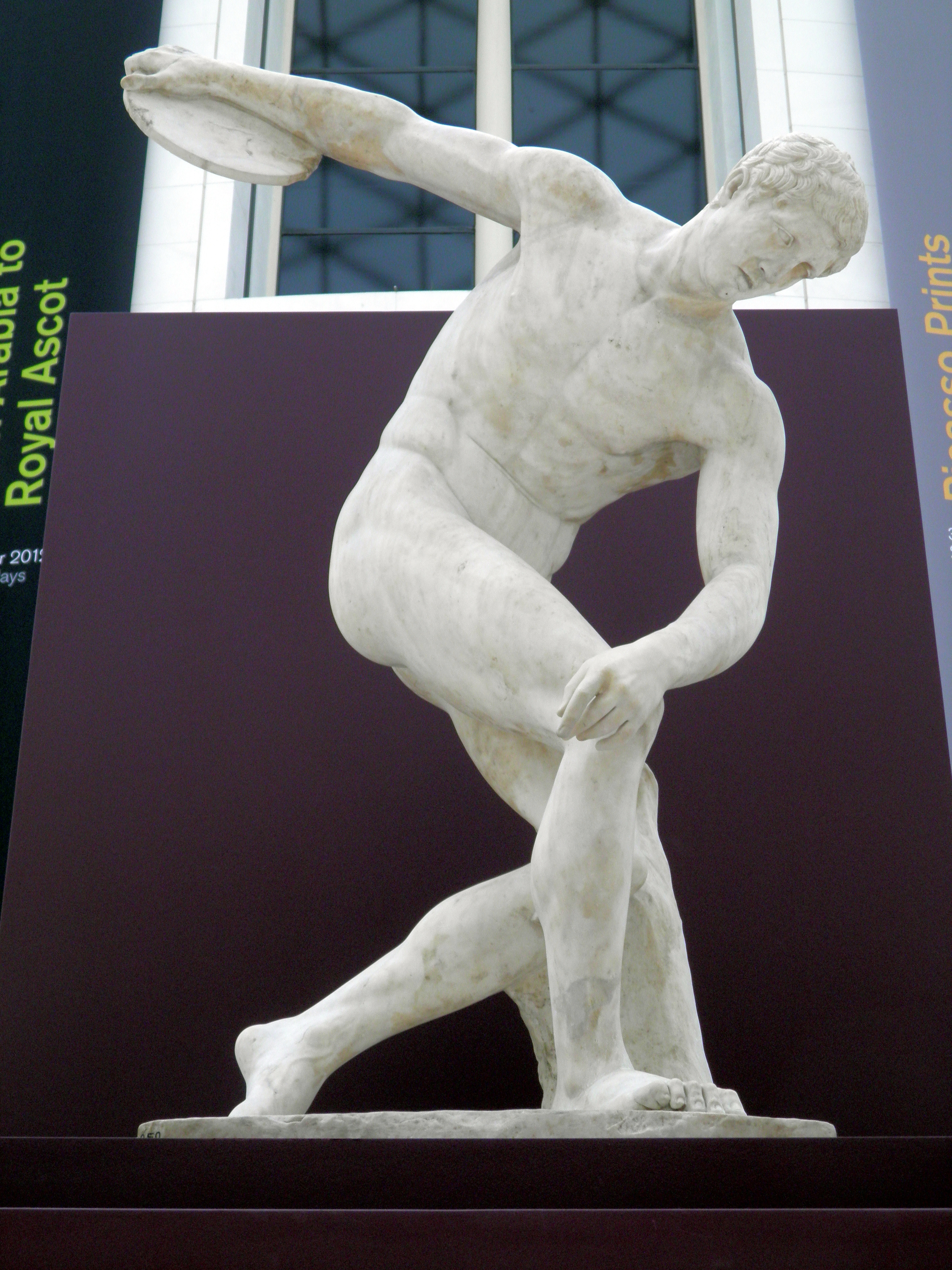 Discus-thrower (discobolus), Roman copy of a bronze original of the 5th century BC, found at Hadrian's Villa, Winning at the ancient Games, British Museum